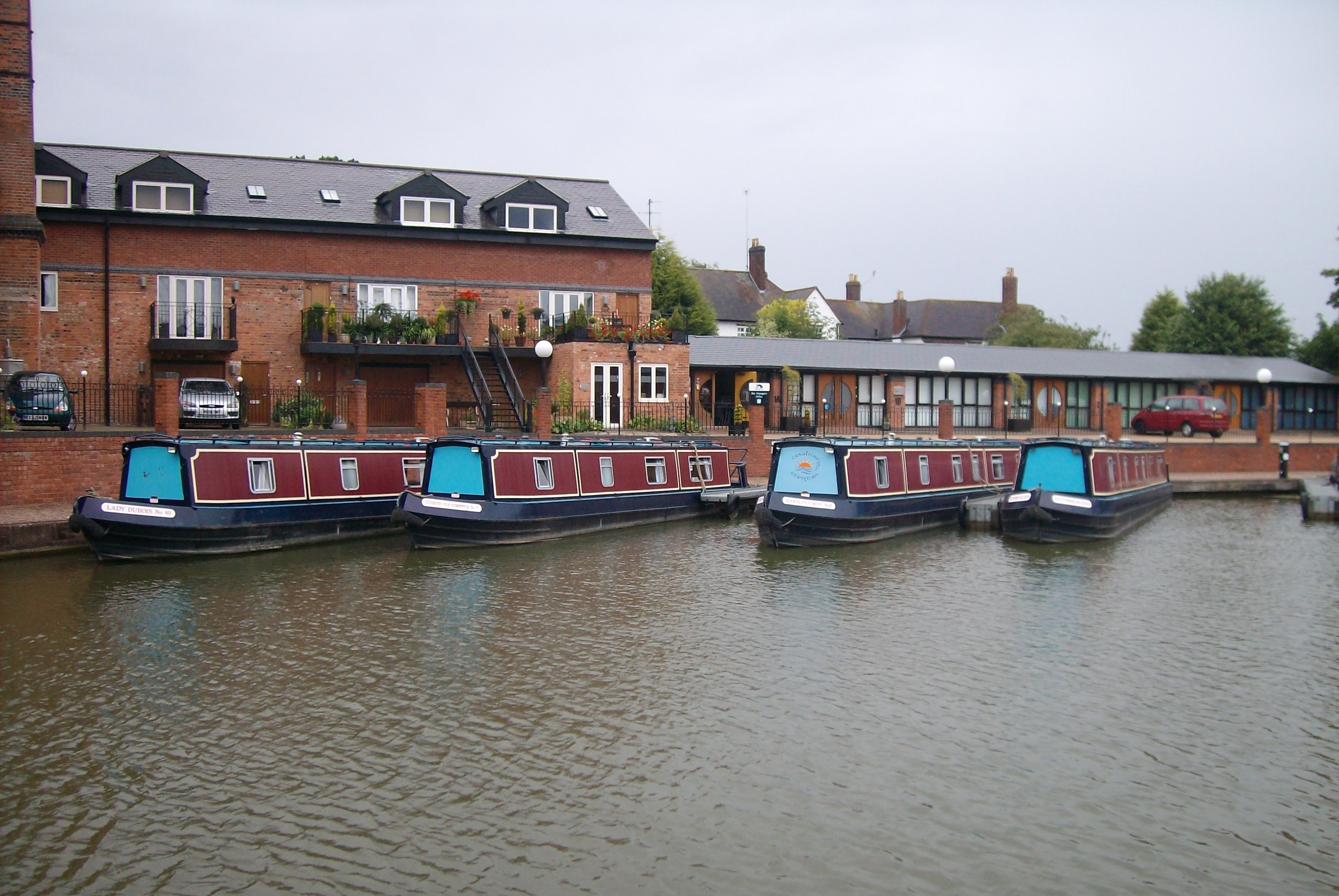 Market Harborough docking area